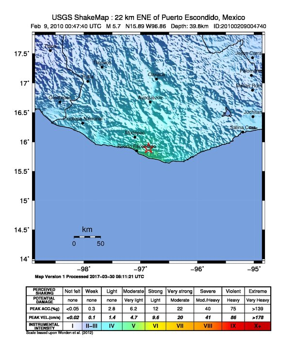 M 5.7 - Oaxaca, Mexico 2010-02-09 00:47:40 (UTC)